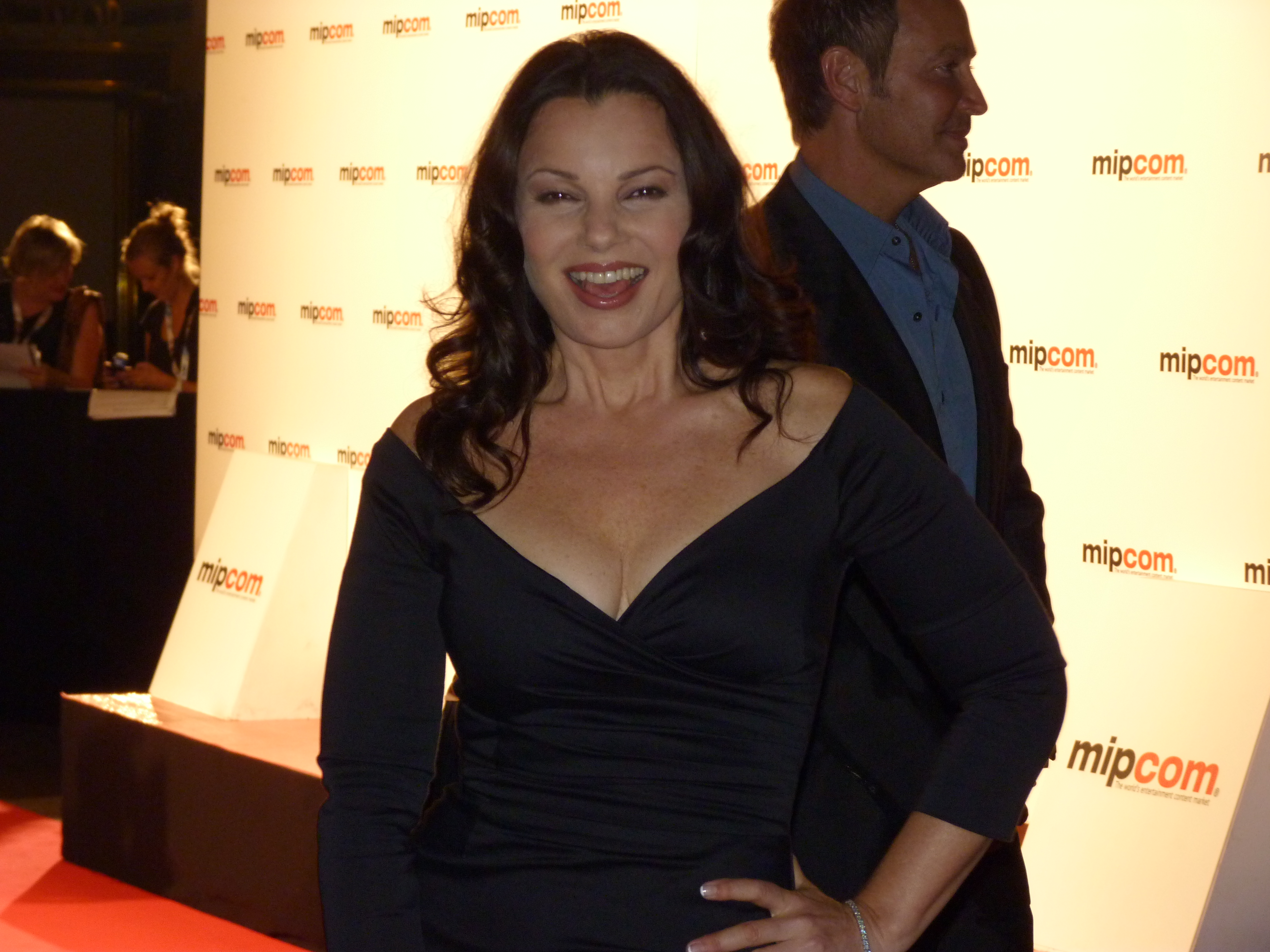 Fran Drescher at the 2011 MIPCOM, in Cannes.